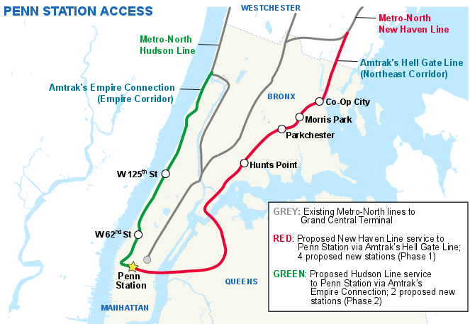 Map depicting the 2 proposed routes and 6 new stations of Metro-North Penn Station Access